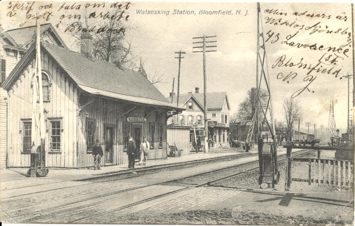 The former Watsessing Avenue station built by the Delaware, Lackawanna and Western Railroad. This station was demolished in 1912, when tracks were depressed through Watsessing.